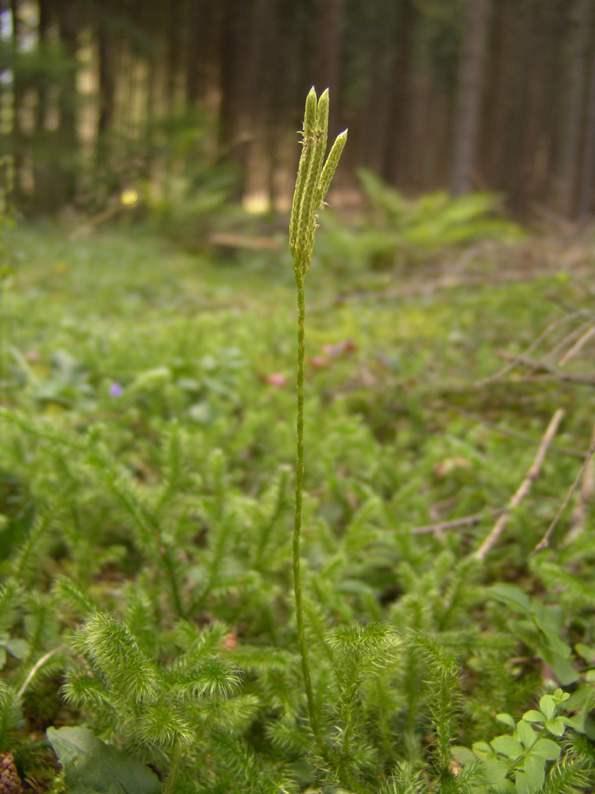 Stag's-horn Clubmoss (Lycopodium clavatum ssp. clavatum), with sporophyll